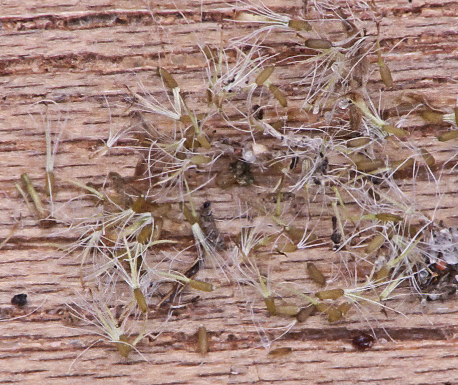 Gnaphalium uliginosum seeds, length 1 mm